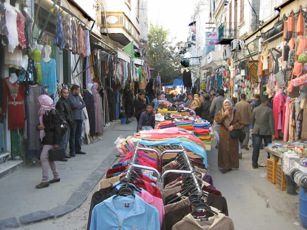 A Souq (market) in the old city of Tripoli.